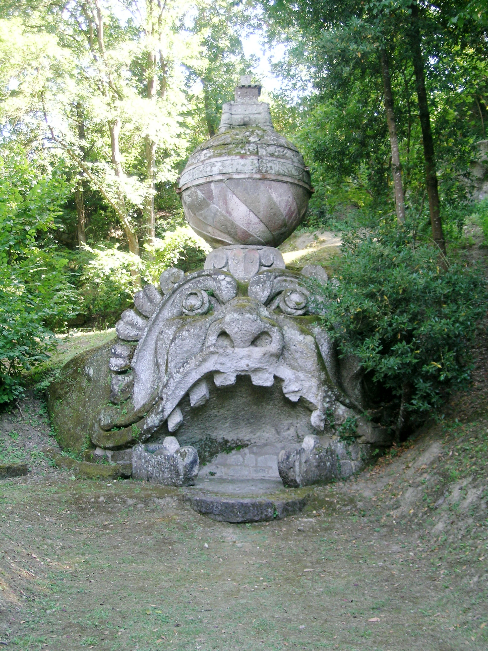 proteo glauco in the park of monsters, close to Bomarzo (Italy)